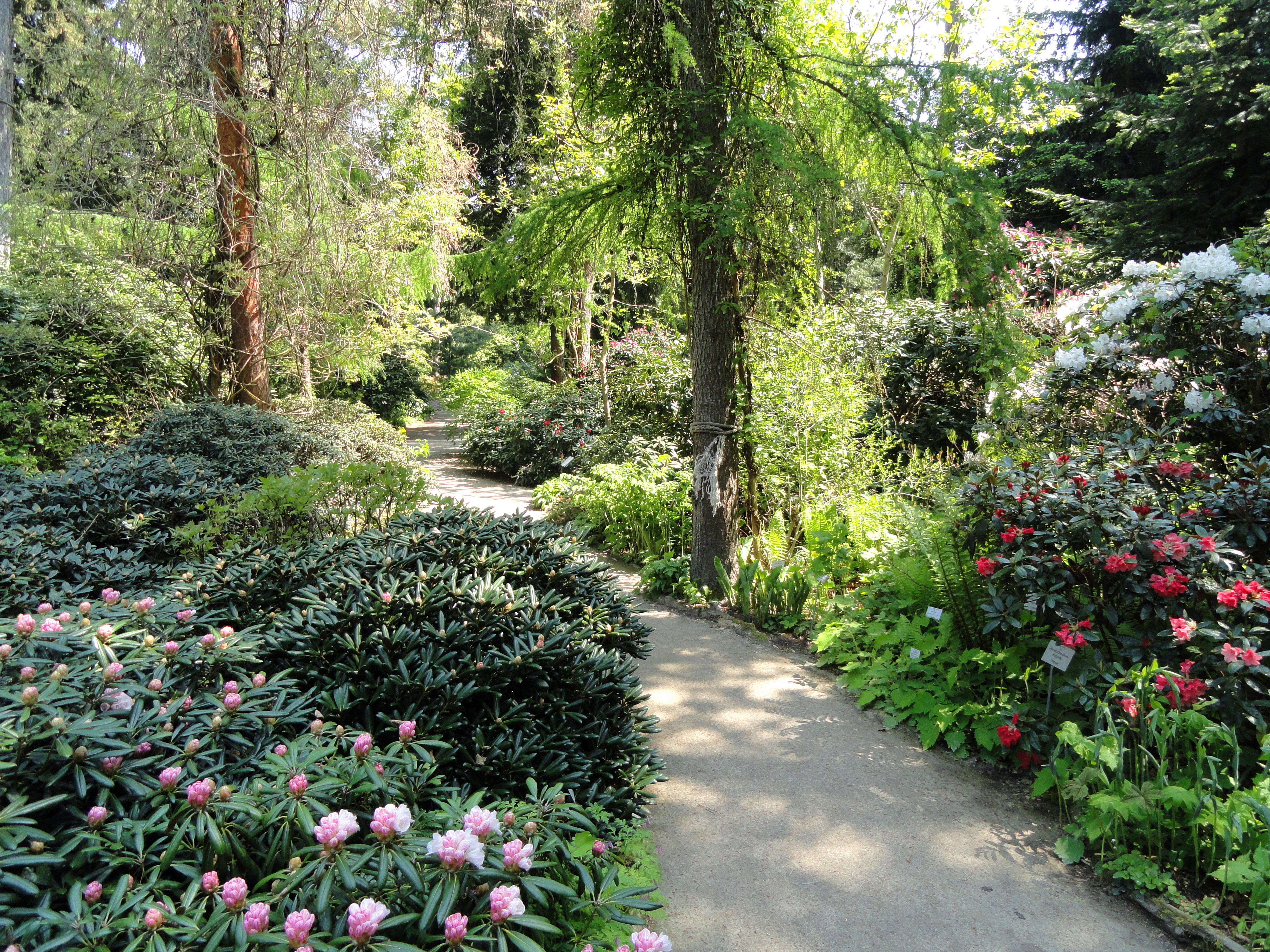 Rhododendrons, Botanischer Garten München-Nymphenburg, Munich, Germany.